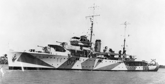 AWM caption: Grimsby class sloop HMAS Yarra. Sunk by Japanese cruiser force about 400 miles south of Java on 1942-03-04 whilst escorting a convoy from Java to Fremantle.